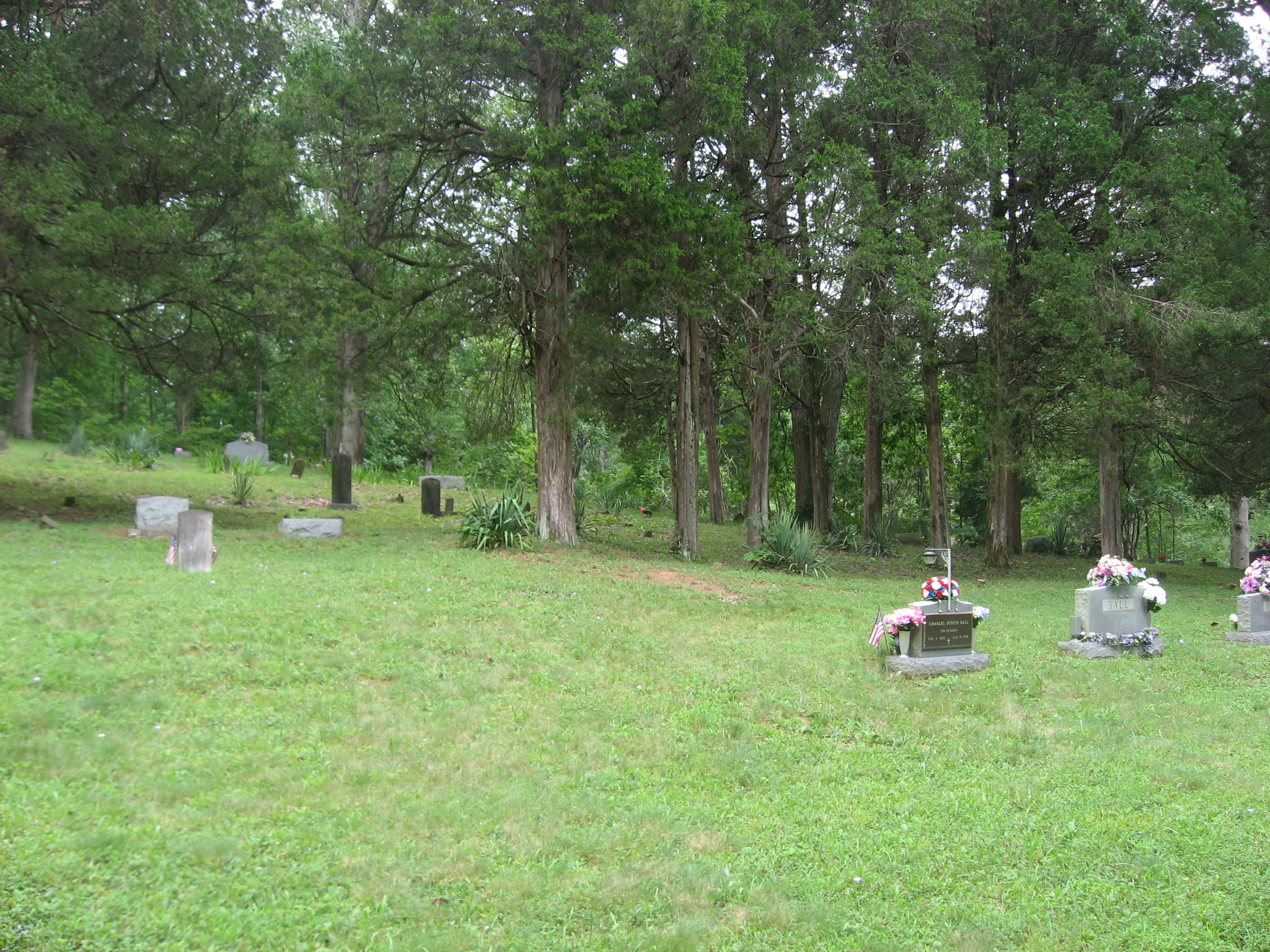 Overview of the Phelps Cemetery, located along Ultimate Road northwest of Derby in Union Township, Perry County, Indiana, United States, within the Hoosier National Forest.